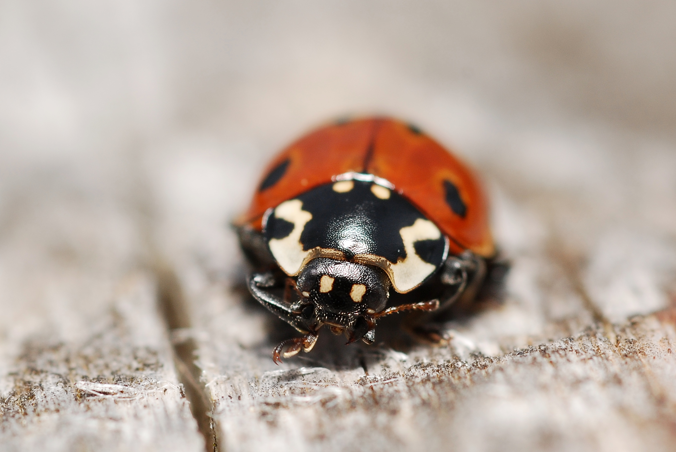 A widespread ladybird species (though generally not present in high abundances) living on coniferous trees